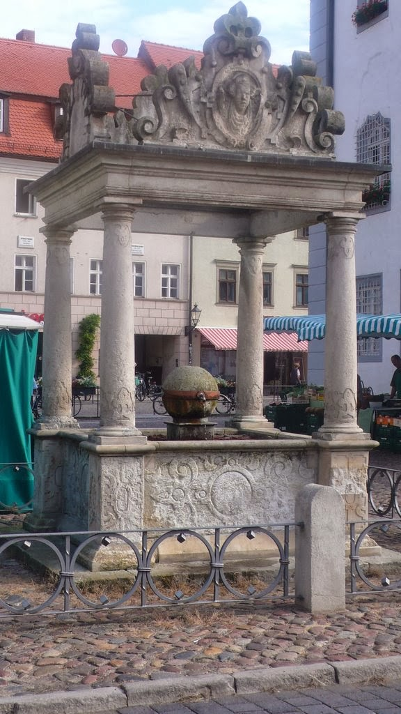 Fountain on Market square